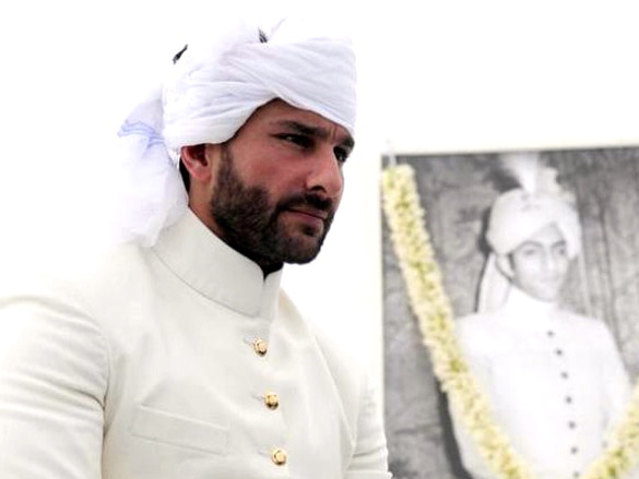 Indian actor Saif Ali Khan crowned as Nawab of Pataudi. The crown is a hereditary honour, with no legal or official standing. Khan was crowned as the Nawab on November 01, 2011, 40 days after his father Mansoor Ali Khan died on September 22. the coronation ceremony called Chahallum and Rasam Pagri involved representatives of 52 villages gathering and honouring the new Nawab. Khan became the 10th Nawab of Pataudi, a former princely state located in the Gurgaon district of Haryana state of India.